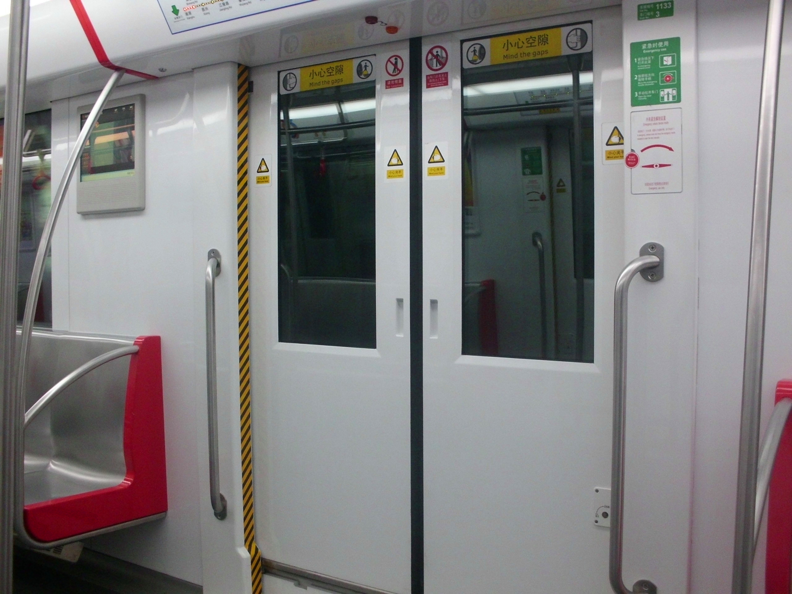 coach of Line 1, Hangzhou Metro